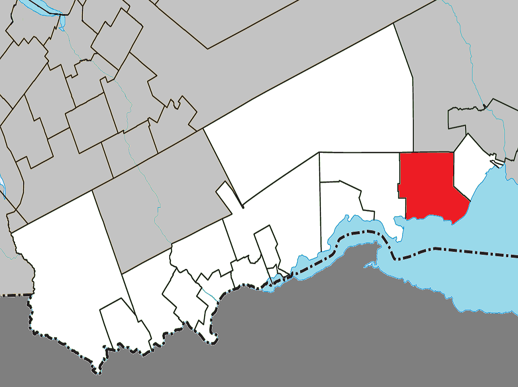 Location of Carleton-sur-Mer, Quebec within Avignon Regional County Municipality.